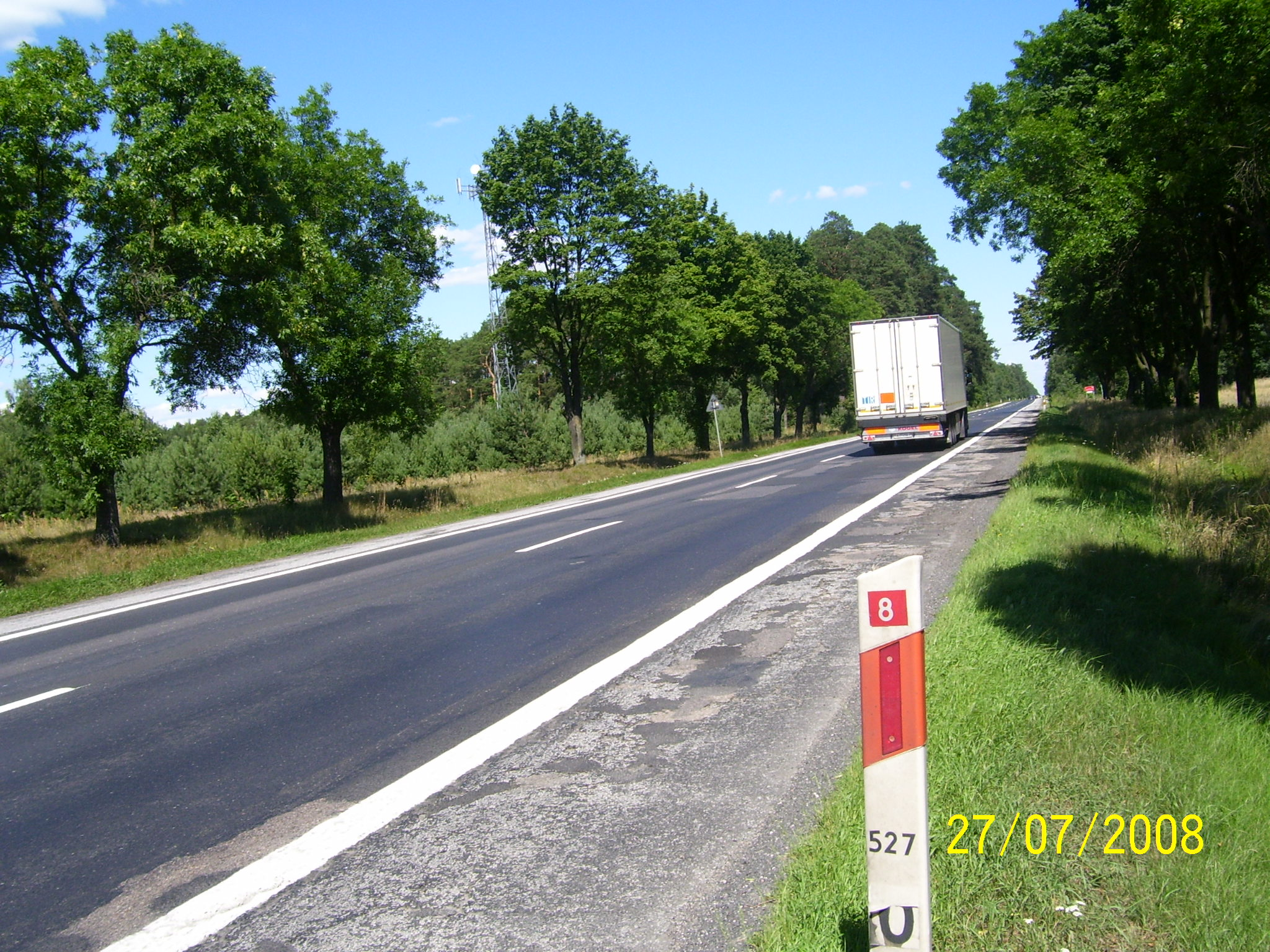 National road 8 in Budykierz